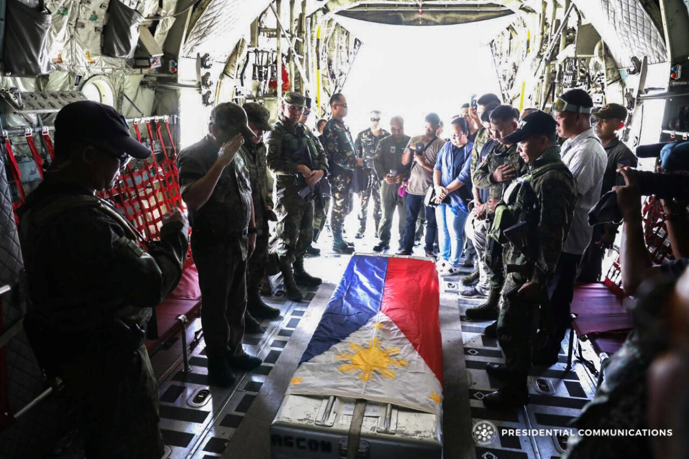 President Rodrigo Duterte pays his last respects to another fallen soldier, Captain Rommel Sandoval, whose body was about to be transported to Manila from Cagayan de Oro City on September 11, 2017. Sandoval was the Company Commander of the 11th Scout Ranger Company. He was killed in action, while rescuing a wounded soldier in Marawi City. SIMEON CELI JR./PRESIDENTIAL PHOTO